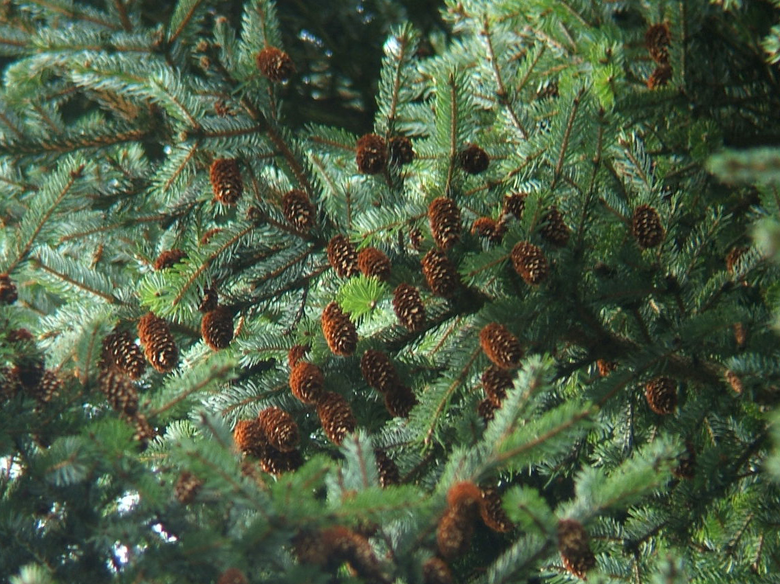 Picea jezoensis subsp. hondoensis Cultivated, Kyloe Woods, Northumberland, UK; September 2005